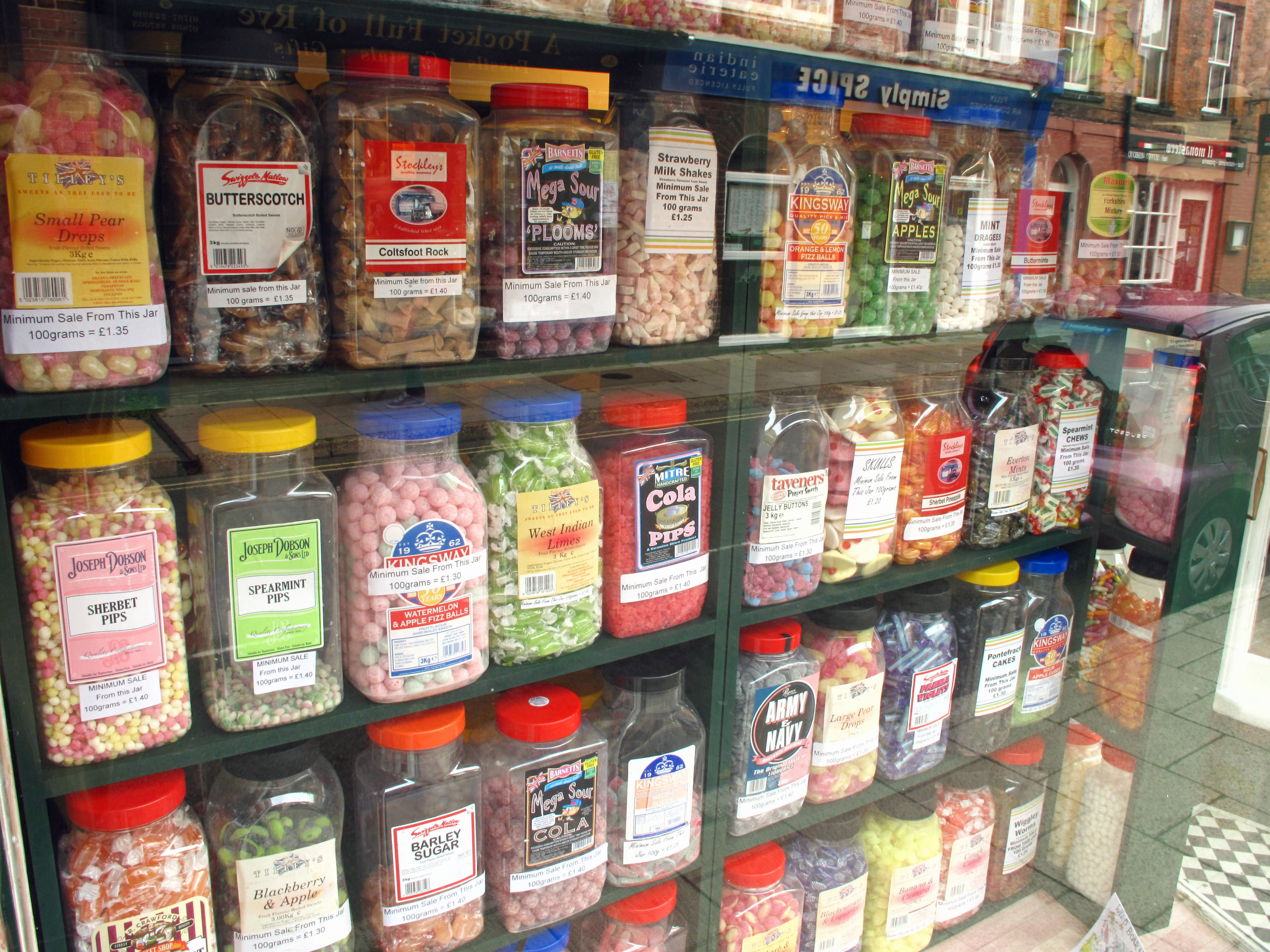 Seen in a Rye shop window.